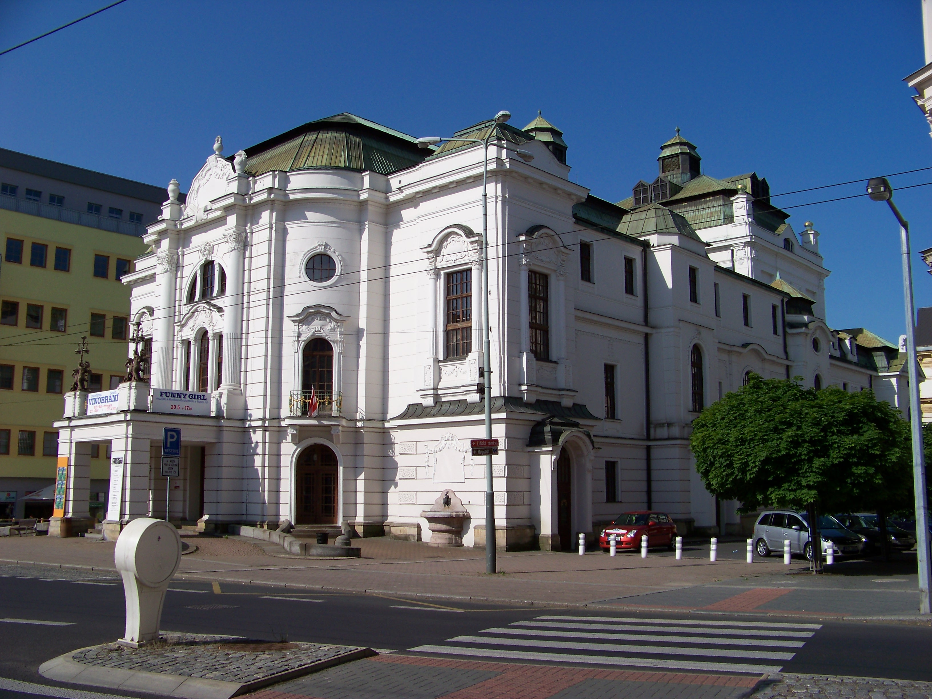 Ústí nad Labem-centrum, Ústí nad Labem District, Ústí nad Labem Region, the Czech Republic. Masarykova, a theatre.